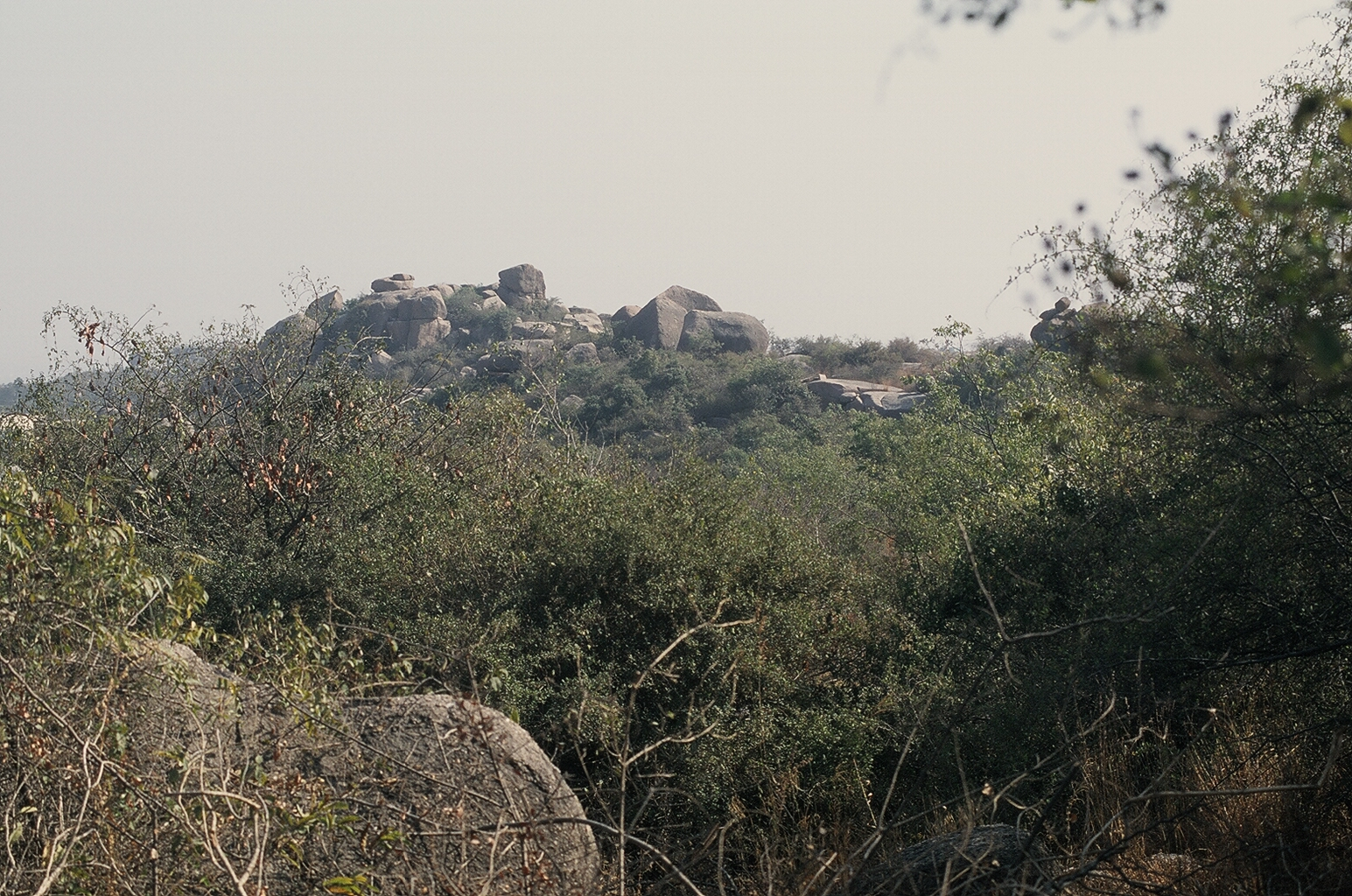 Hills of granite boulders are a common feature of the landscape on Deccan Plateau. This shot is taken in the north-western part of Hyderabad.